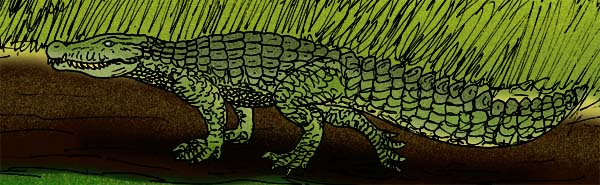 Reconstruction of the Pleistocene mekosuchine crocodile, Quinkana fortirostrum, of prehistoric Queensland.